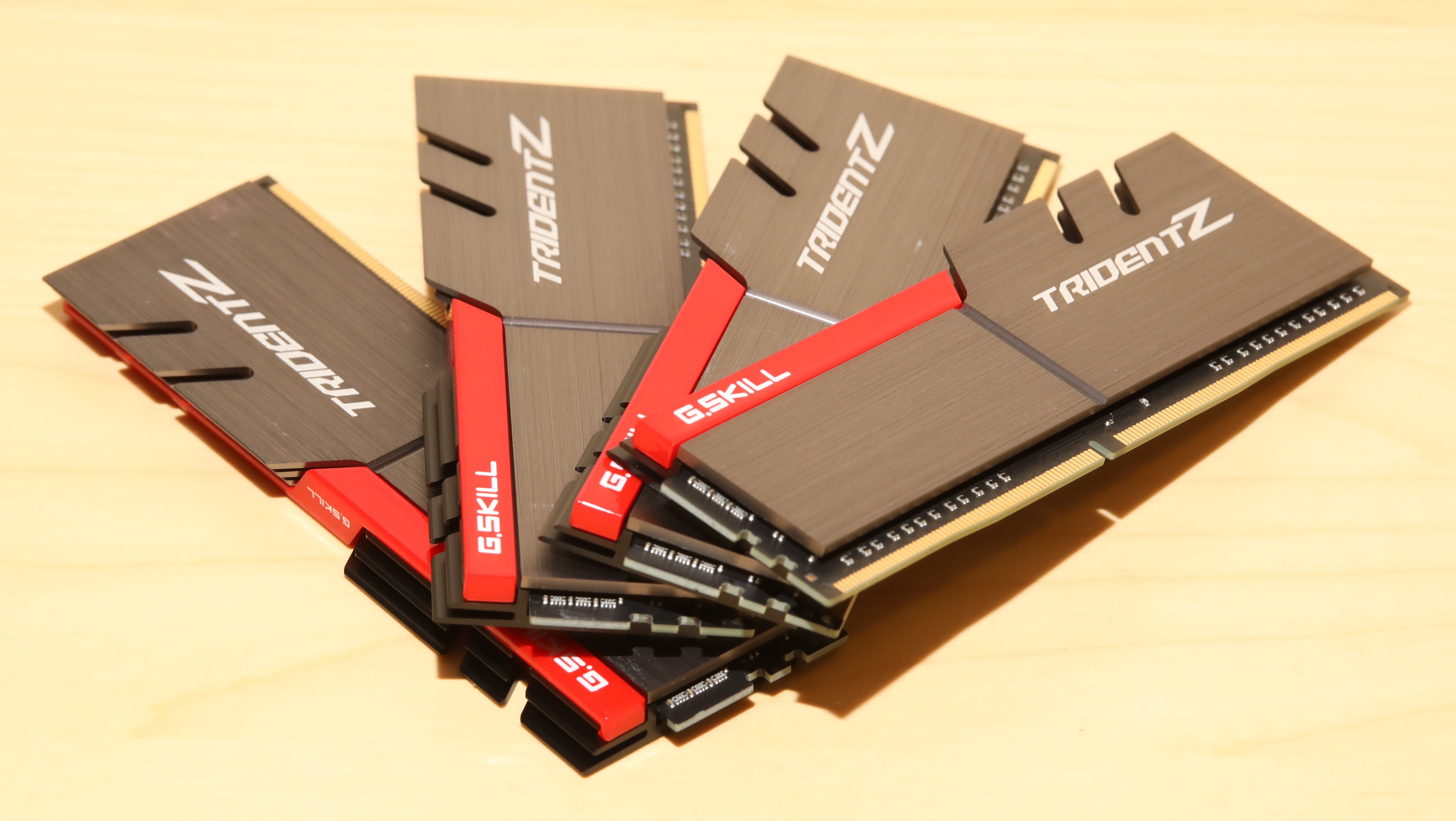 Photo of 4 sticks of G.skill TridentZ DDR4 RAM